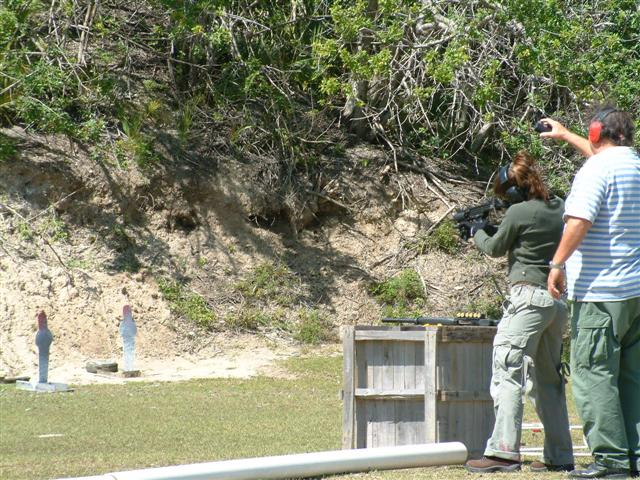 Female submachine gun competitor with mini uzi shooting pepper popper targets at a Florida submachine gun match in 2005